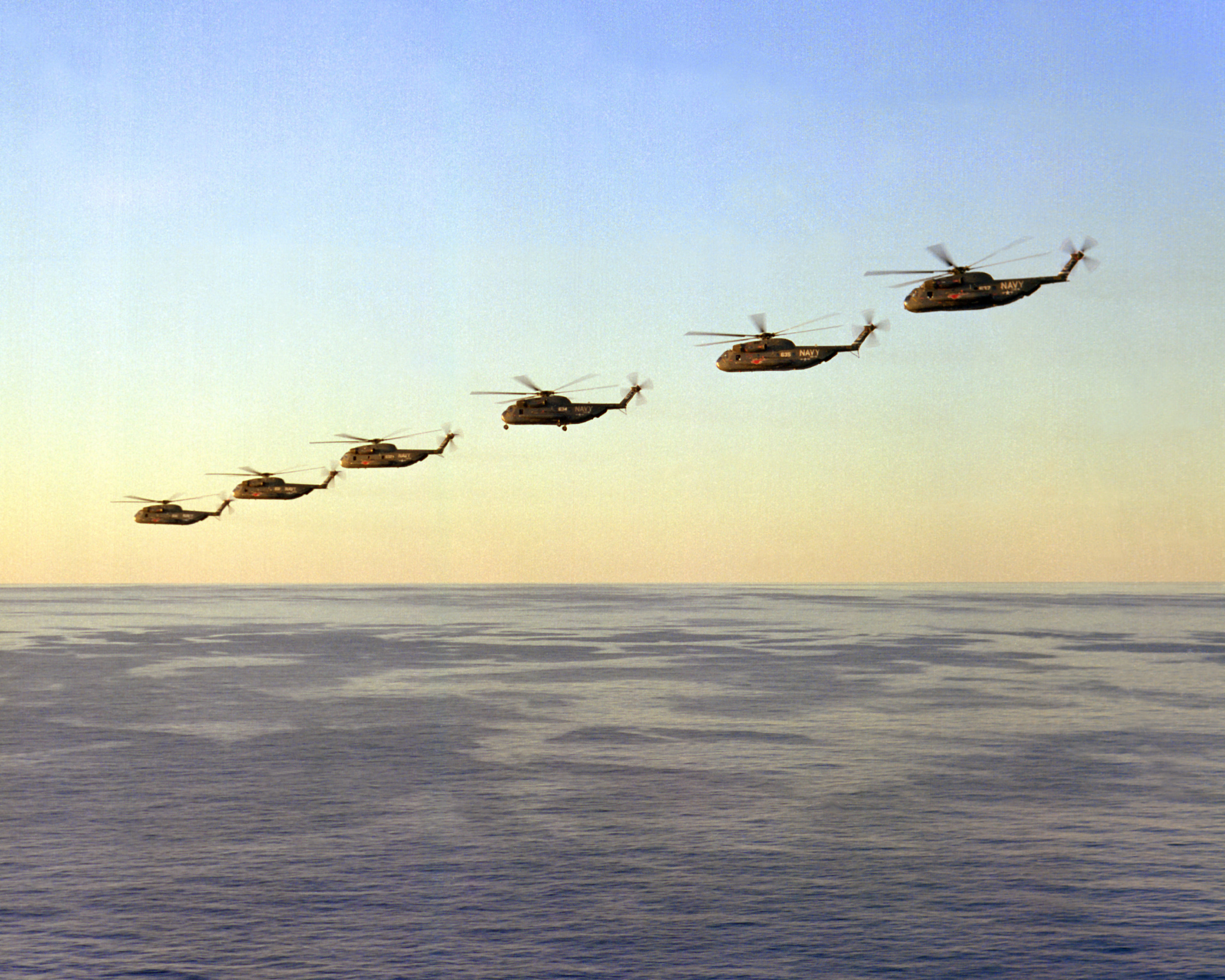 Six U.S. Navy Sikorsky RH-53D Sea Stallion helicopters of helicopter mine countermeasures squadron HM-16 Sea Hawks in flight in the vicinity of the aircraft carrier USS Nimitz (CVN-68) in preparation of "Operation Evening Light" (Eagle Claw), in the Persian Gulf in Apirl 1980. Six helicopters would be lost during the failed attempt to rescue U.S. hostages in Iran on 24 April 1980.